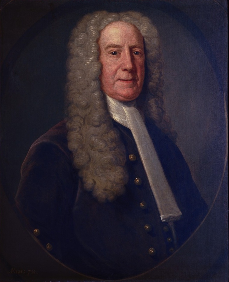 Massachusetts Supreme Court Chief Justice Benjamin Lynde, Sr..